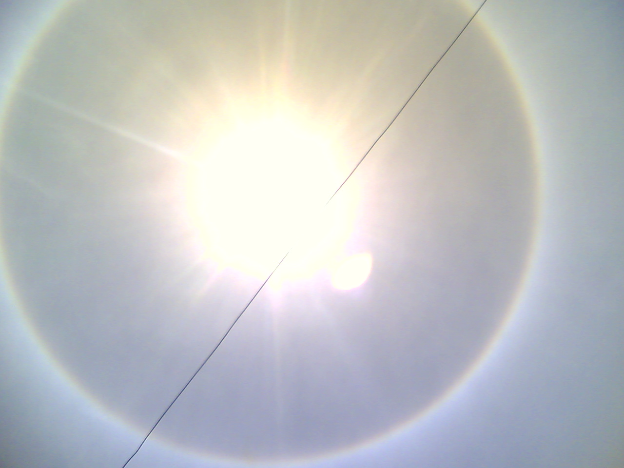 22° Halo around the Sun visible in Medan, Indonesia on Sept 22nd, 2008 at noontime